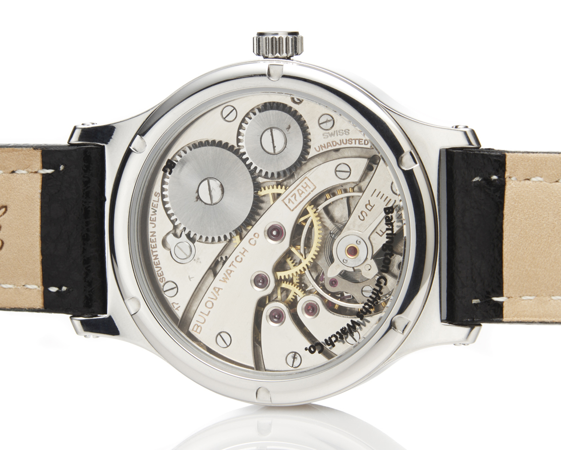 Barrington Griffiths Watch Company. Modern Classic wristwatch back view.